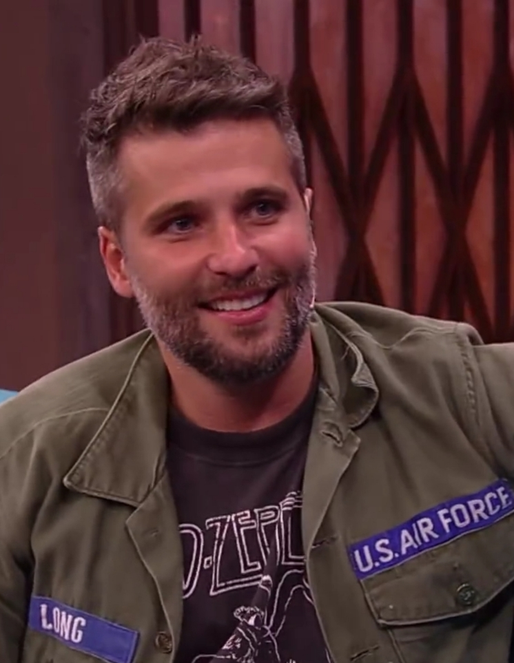 Bruno Gagliasso em 2018.